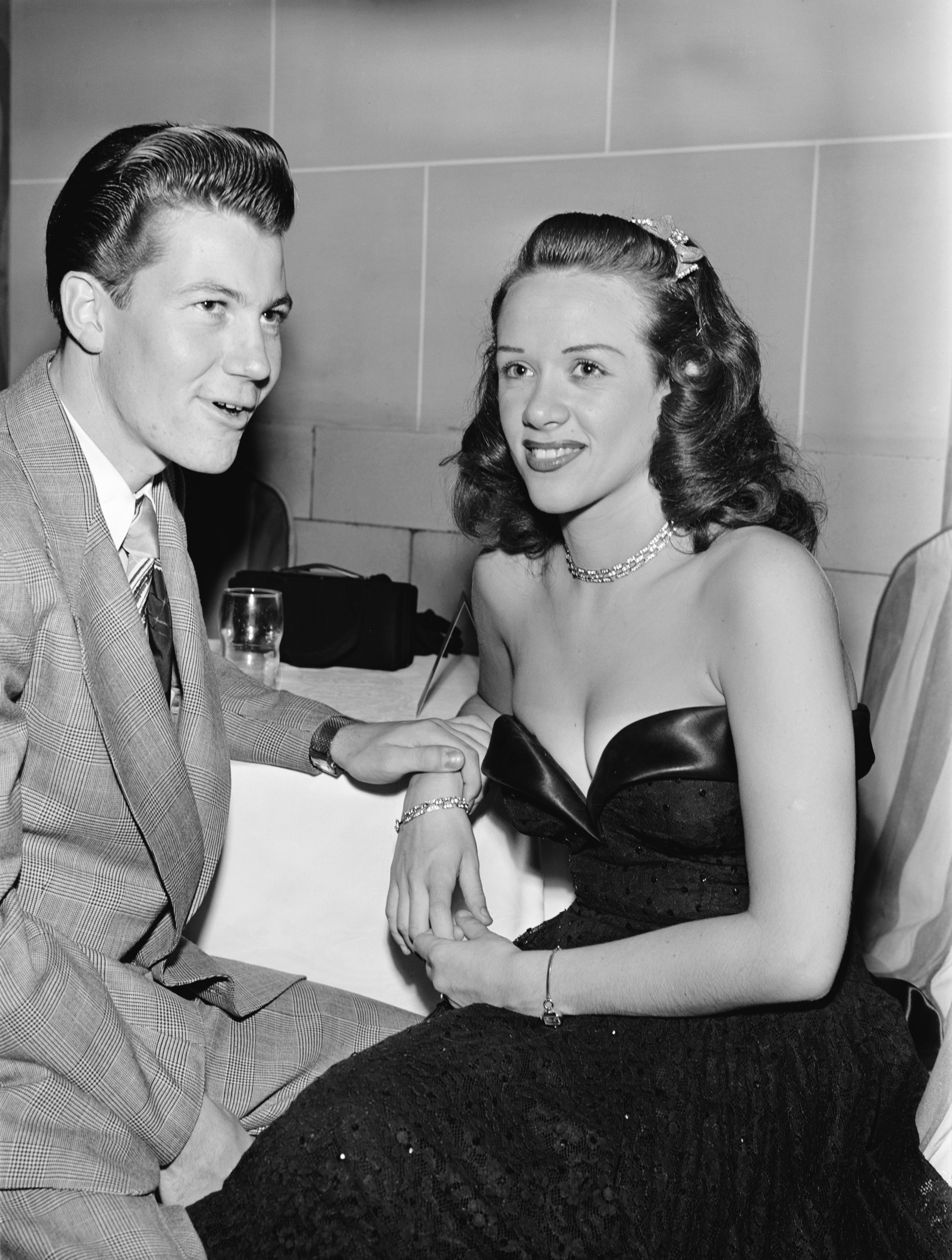 Gene Williams (musician) and Fran Warren. NYC, ca. October 1947. Photography by William P. Gottlieb